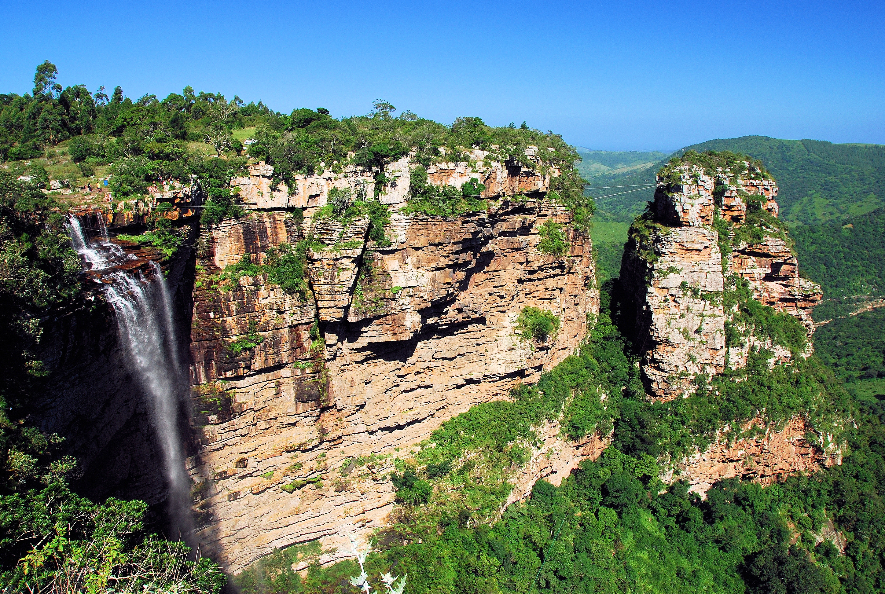 View towards Baboons Castle, Oribi Gorge, South Africa